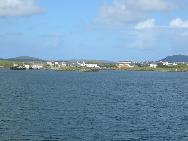 Lochmaddy. View of the pier from the approaching ferry from Skye